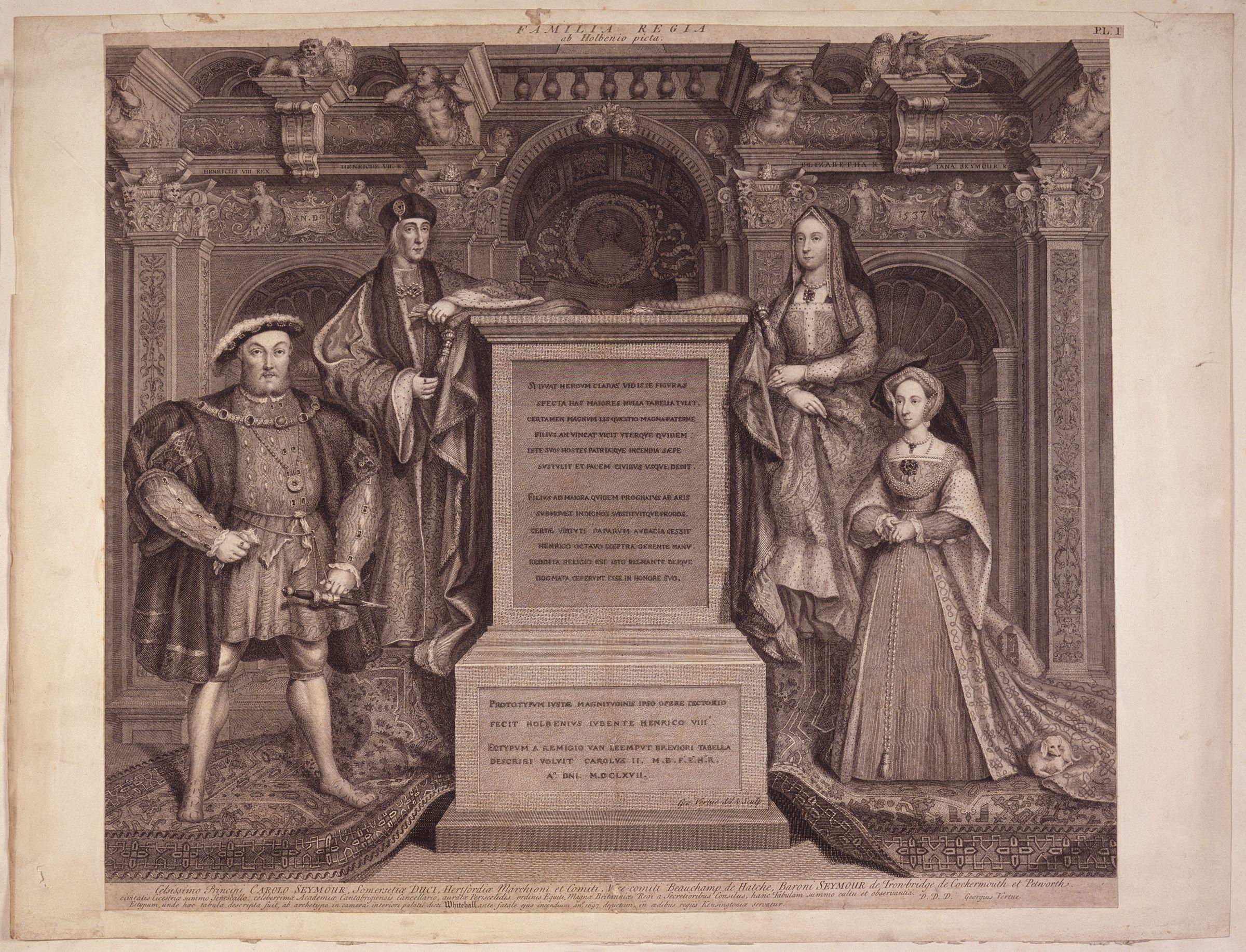 King Henry VIII; King Henry VII; Elizabeth of York; Jane Seymour